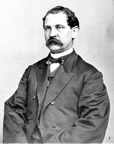 Portrait of Brig. Gen. (as of Mar. 13, 1865) Thomas Eckert, officer of the Federal Army, Chief of the U.S. War Department Telegraph Staff and later Assistant Secretary of War amd president of Western Union.